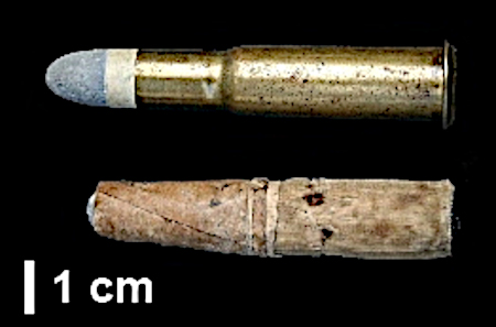 11 mm Grass brass cartridge and 11 mm Chassepot paper cartridge, comparison. Adapted from this file by Amenhtp